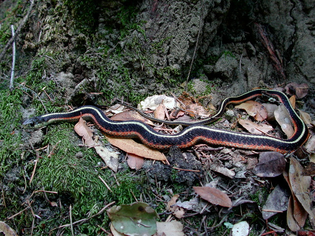 Garter snake, Thamnophis sirtalis infernalis, from northern California.